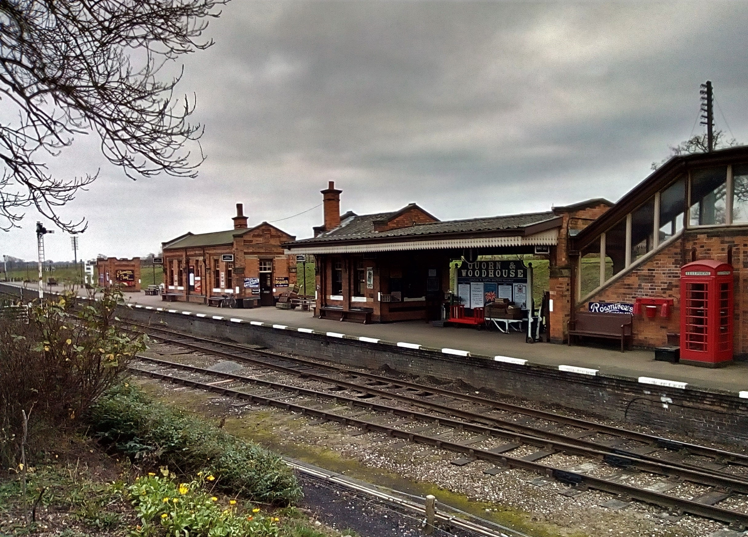 A photo of Quorn and Woodhouse railway station